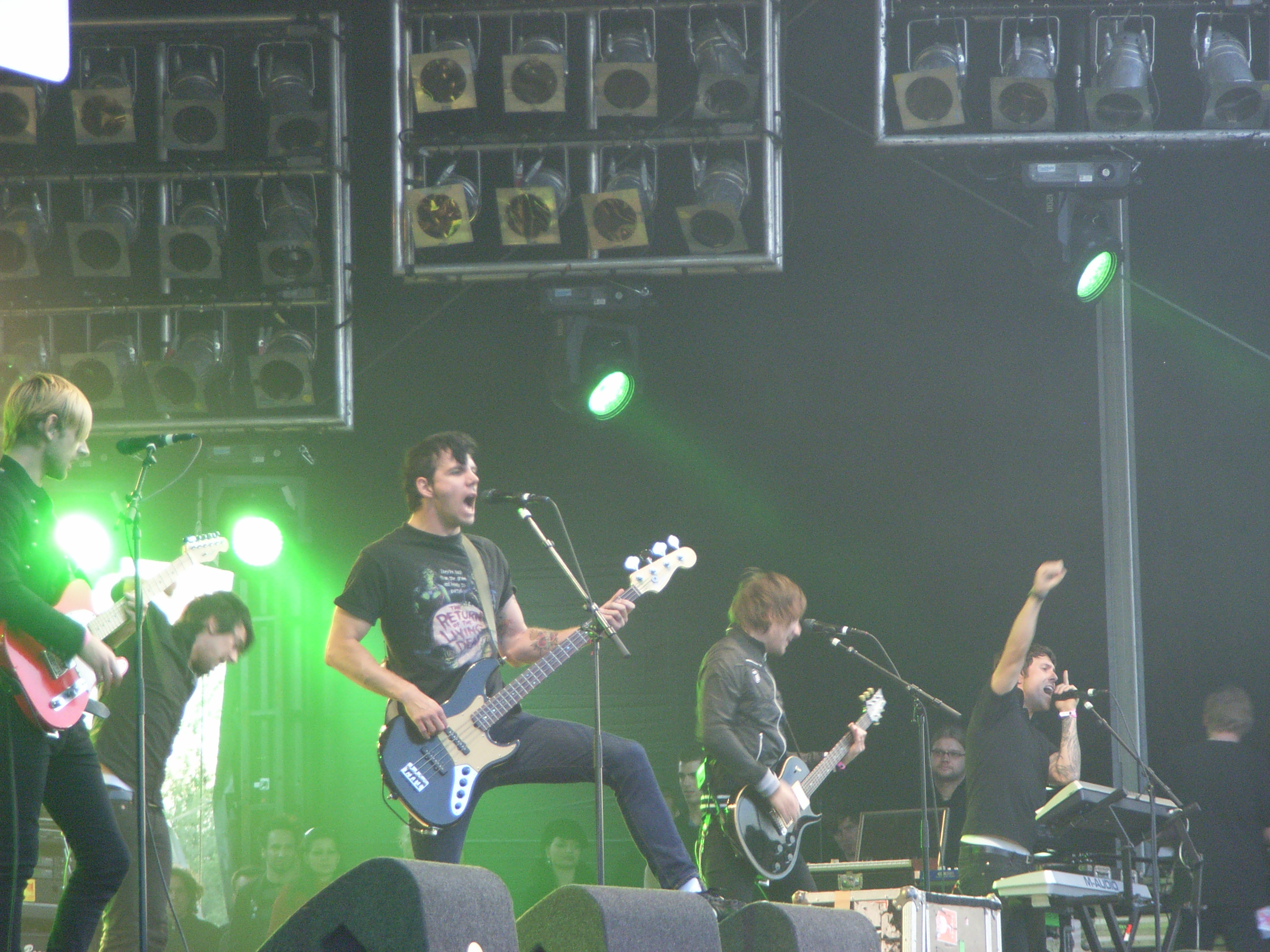 Lostprophets at Pinkpop 2007